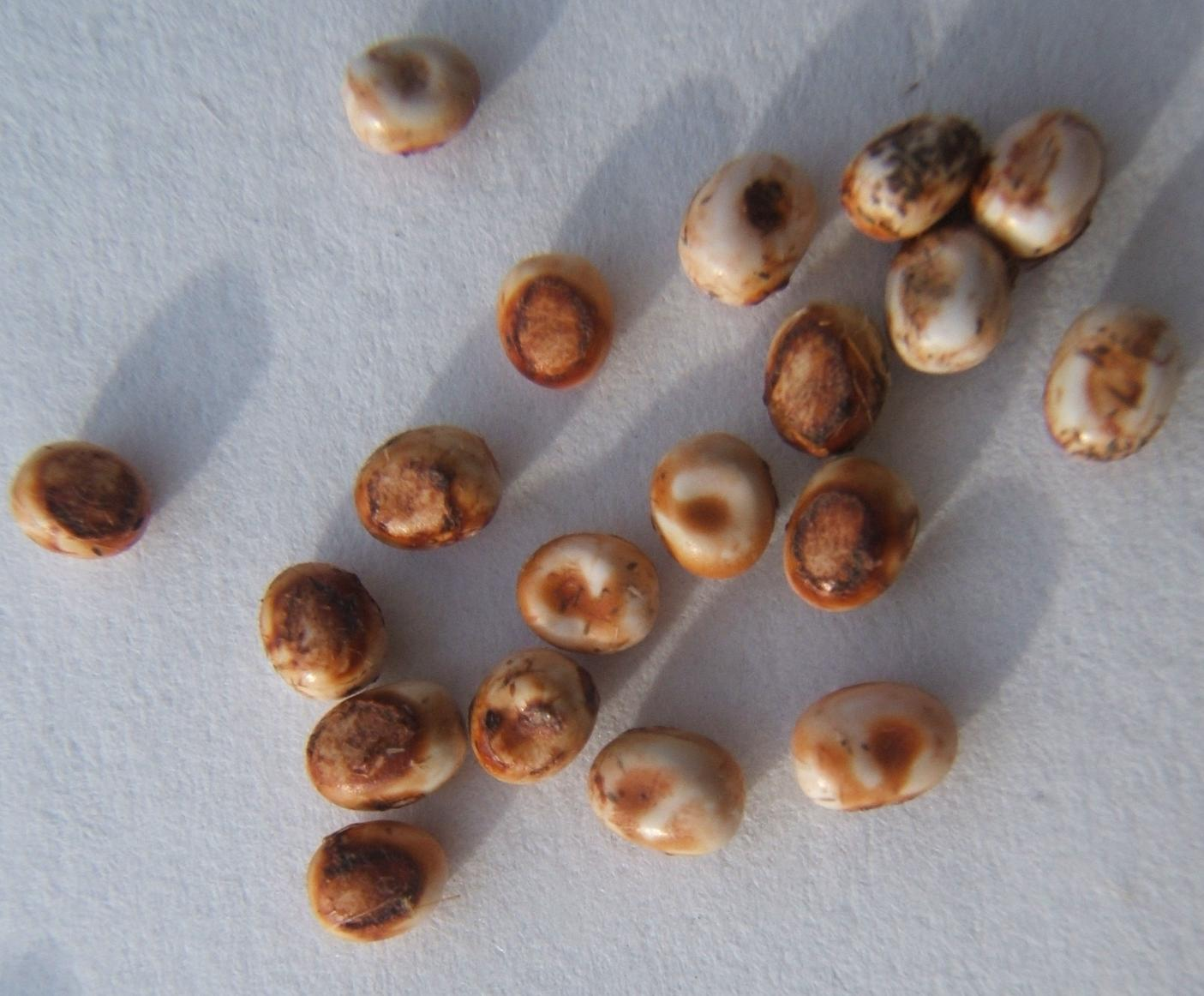 Hyalophora cecropia eggs taken and reared by Shawn Hanrahan.